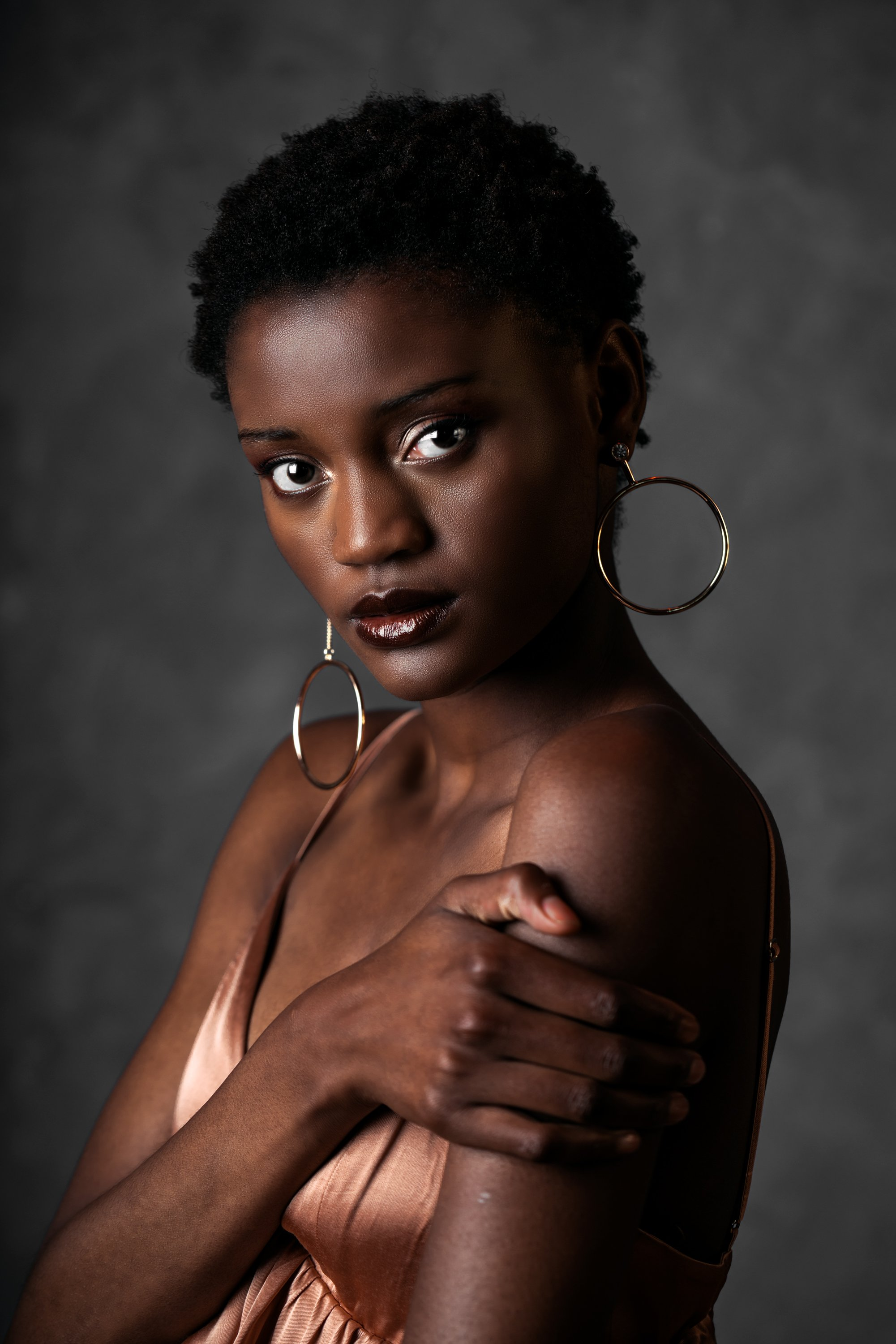 Fashion model looking at the camera